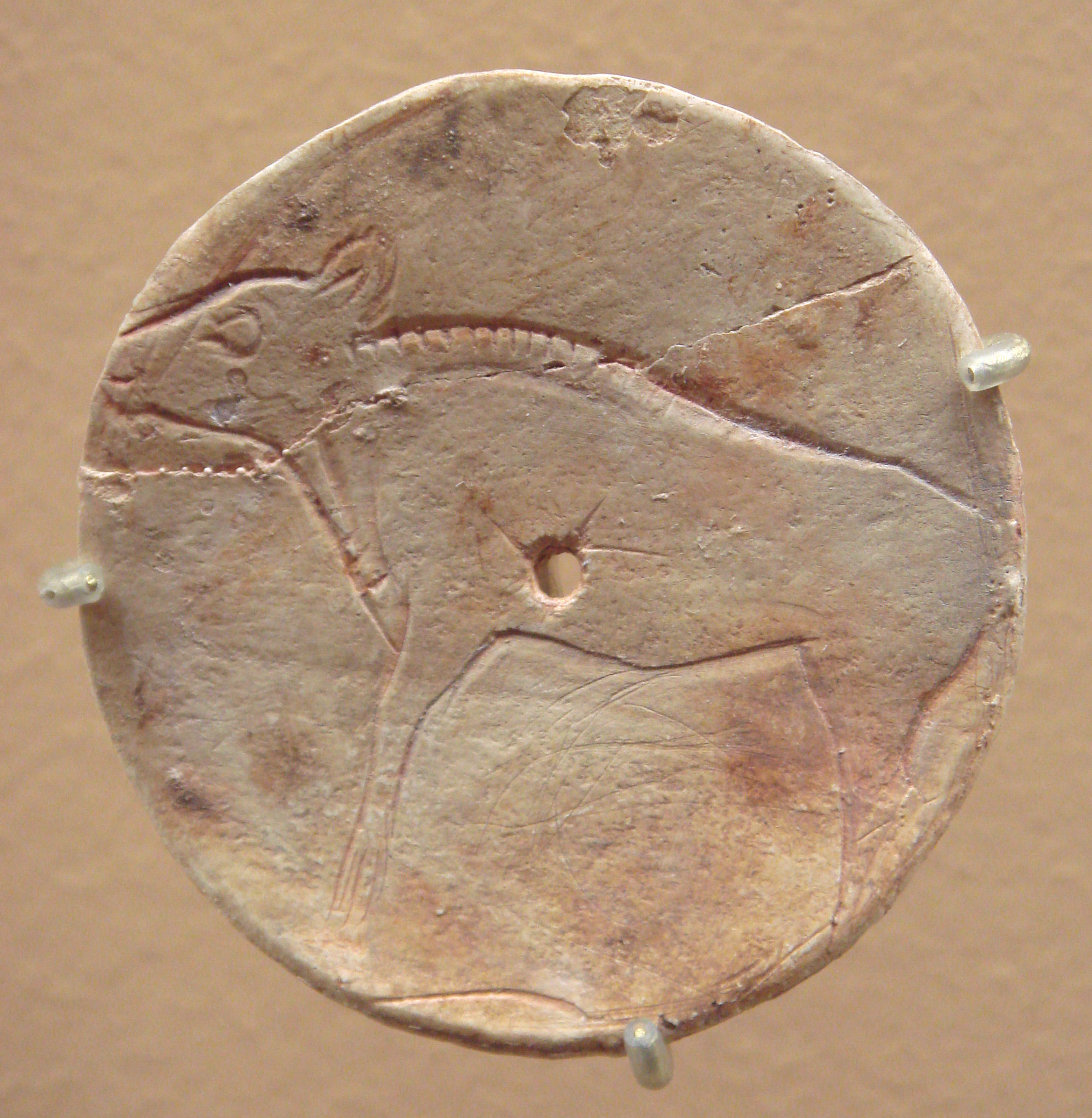 Roundal with engraving of auroch cow and calf on opposite sides. Musee des Antiquites Nationales inv. 77558. 15000 yrs old, bone. 5.1 x 4.9 x 0.1 cm. From Mas d'Azil, Ariege. (corrected). See p. 25 here